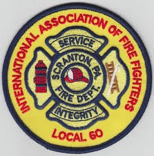 The union patch for International Association of Firefighters Local 60, Scranton Firefighters.